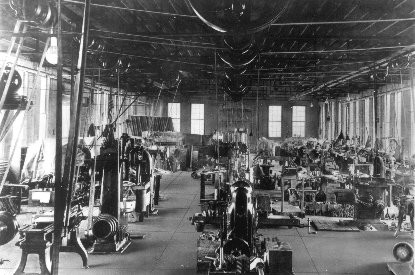 Factory of the Fitch four-drive company.